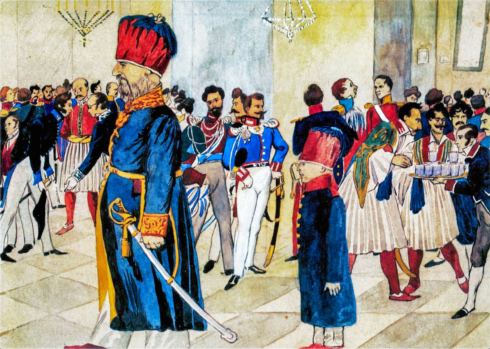 The Ottoman ambassador Kostakis Mousouros and his page at a ball at the royal residence in Athens, 1838 (the date is probably off by a few years, since the first ambassador arrived in 1840)